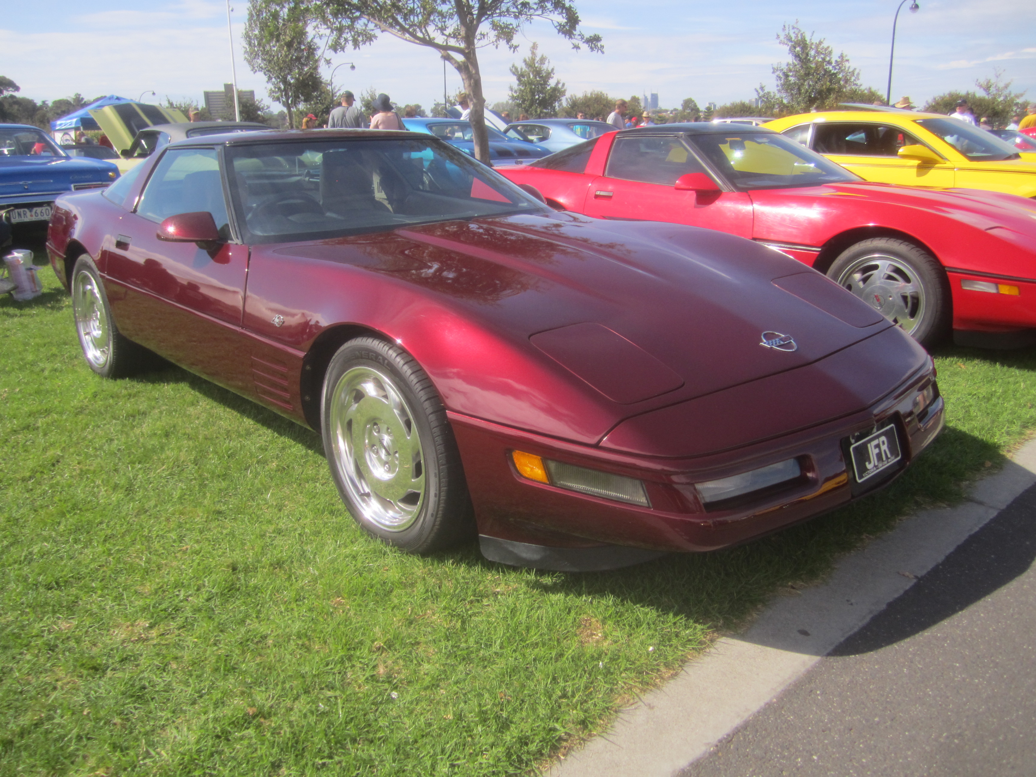 Ruby Red. The C4 Corvette was made from 1984 to 1996. a more sleek modern looking car with a new glass hatchback. Available in Coupe and the Convertible was reintroduced in 1986 Unlike earlier Corvettes, visually, the C4 changed very little through the years, apart from the 1991 facelift. The high mount stoplight was introduced on the coupes in 1986. New wheels in 1988, the ZR-1 introduced in 1990, fender scoops updated in 1995 In 1993, the 40th Anniversary package was available on all models. It included Ruby Red metallic paint and Ruby Red leather sport seats. 6749 were made. 1993 Engines; 300hp LT1 or 405hp LT5 350 cu in V8s